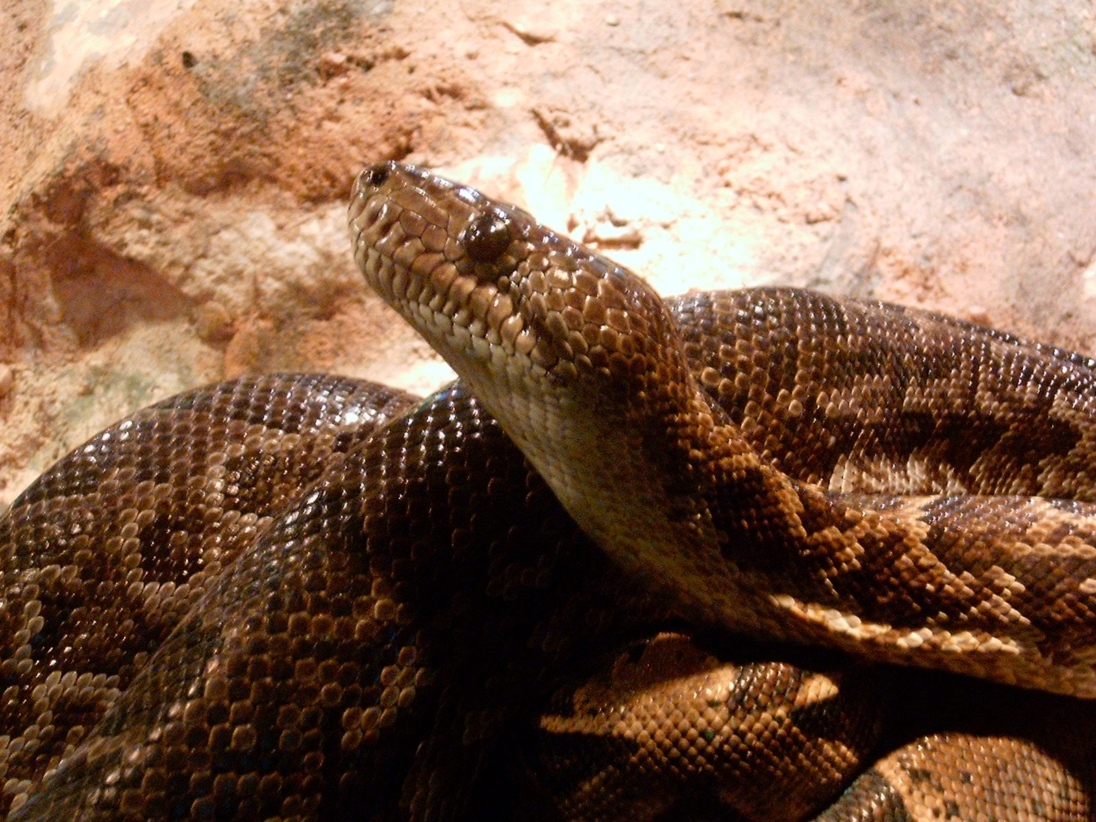 Epicrates angulifer at Budapest Zoo